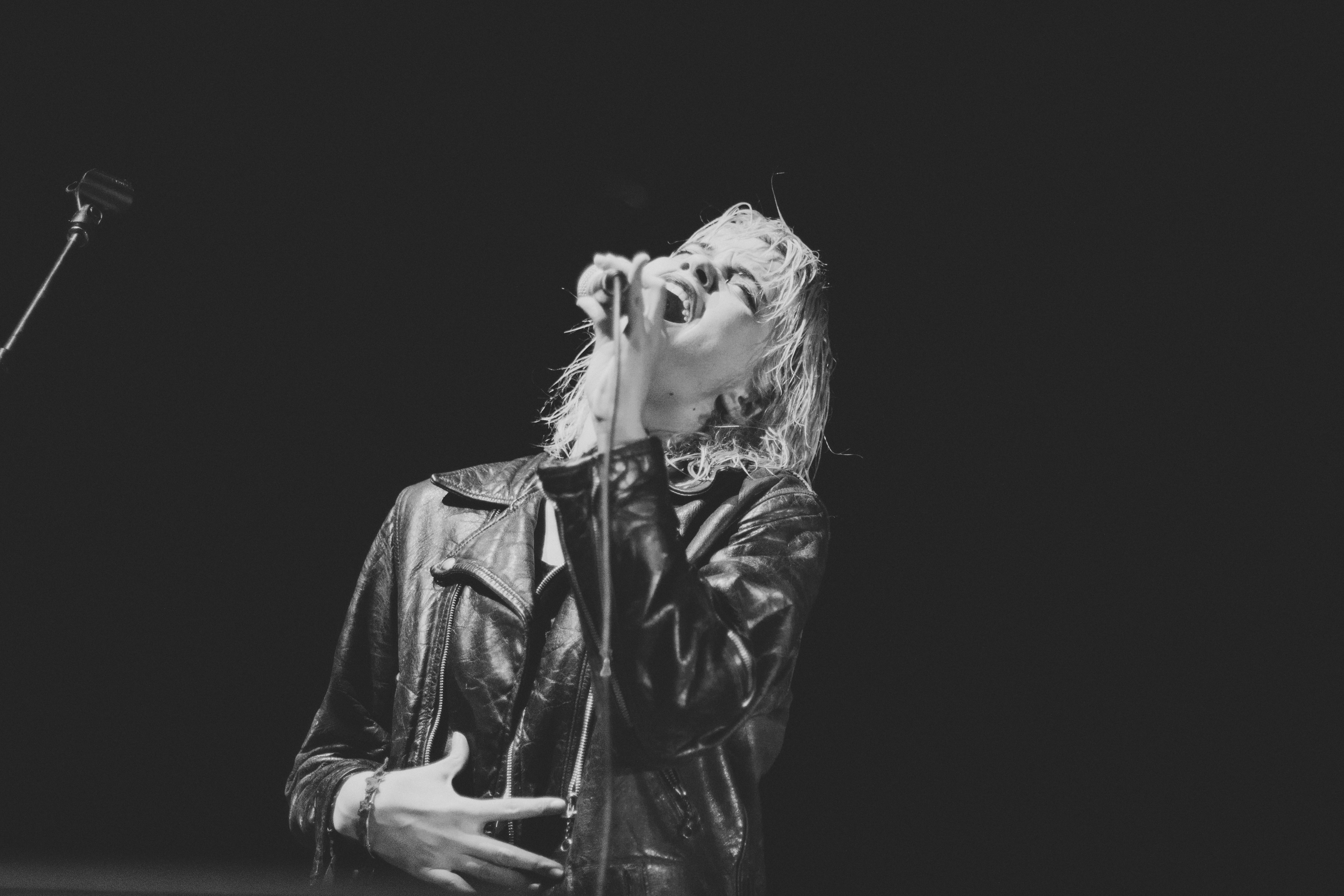 Sky Ferreira performing at the Pageant on September 24, 2013.